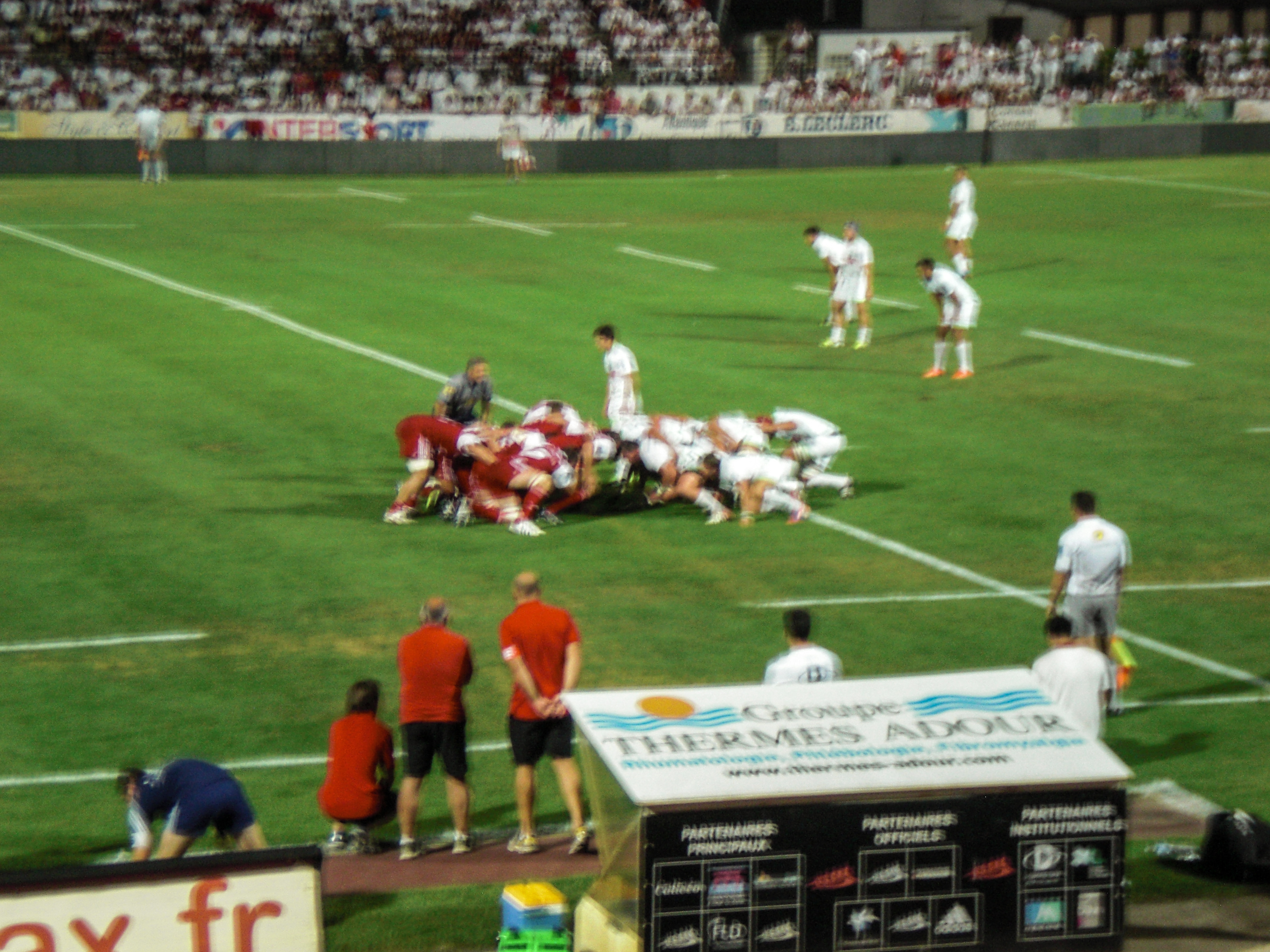 rugby union friendly match — 17 August 2013, stade Maurice-Boyau. Match between: US Dax — Section Paloise